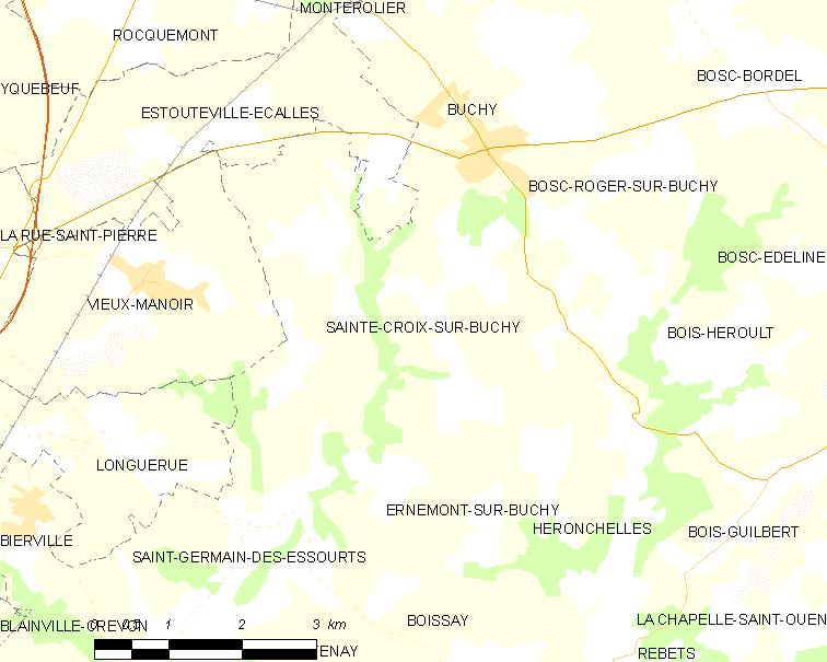 Map of French municipality Sainte-Croix-sur-Buchy